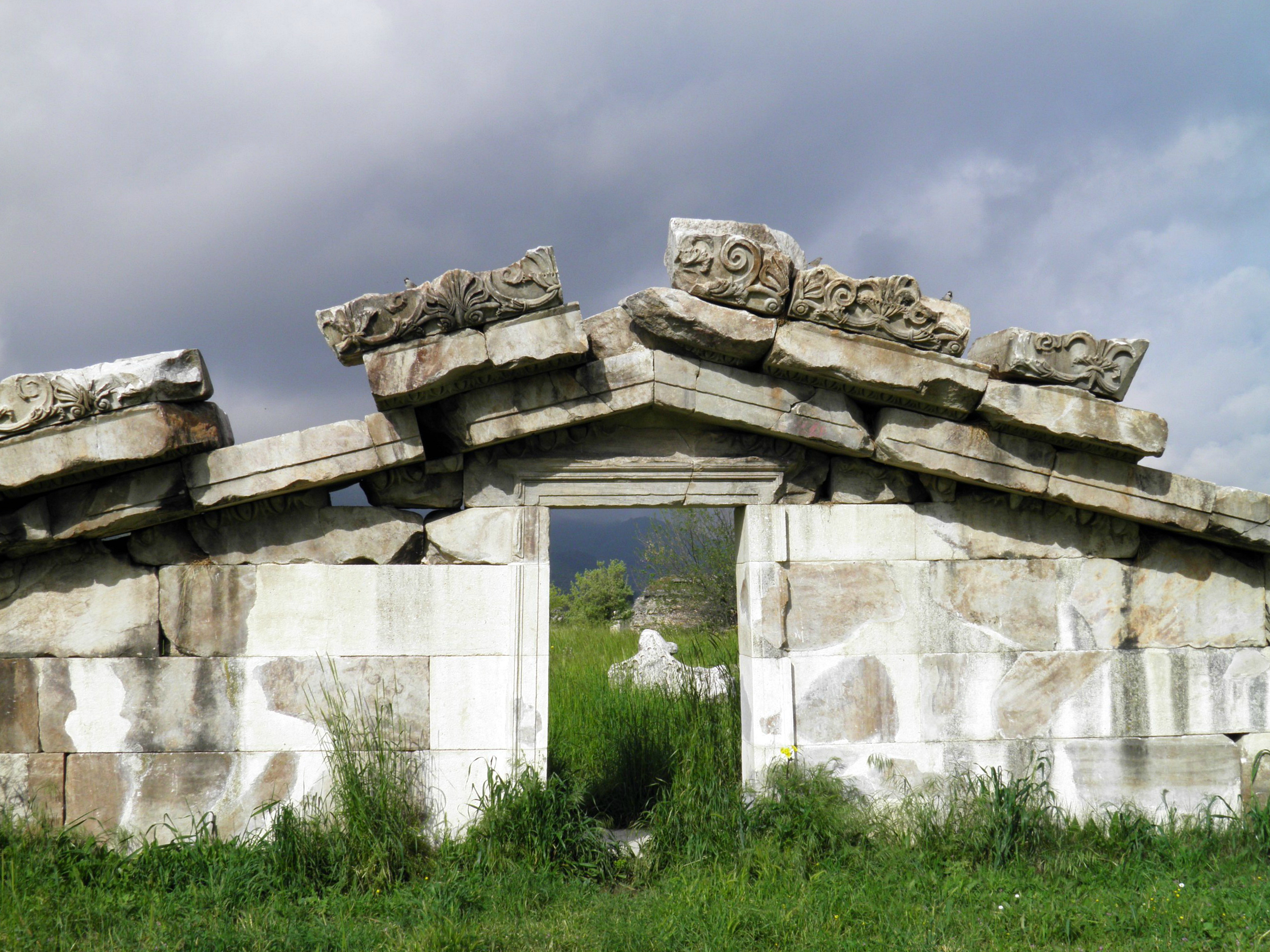 The Pediment of the Temple of Artemis Leukophryene, Magnesia ad Maeandrum, Turkey